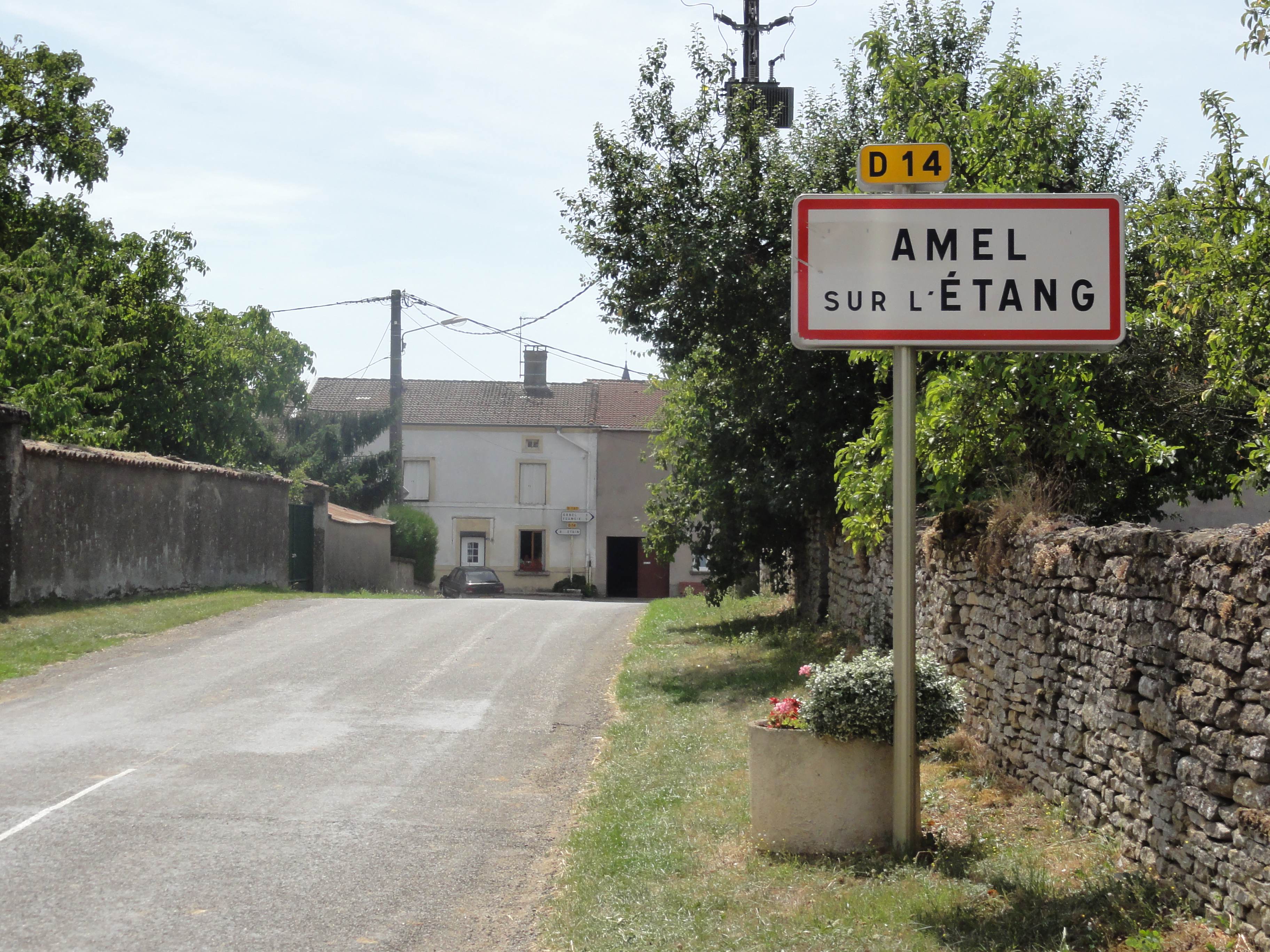 Amel-sur-l'Étang (Meuse) city limit sign